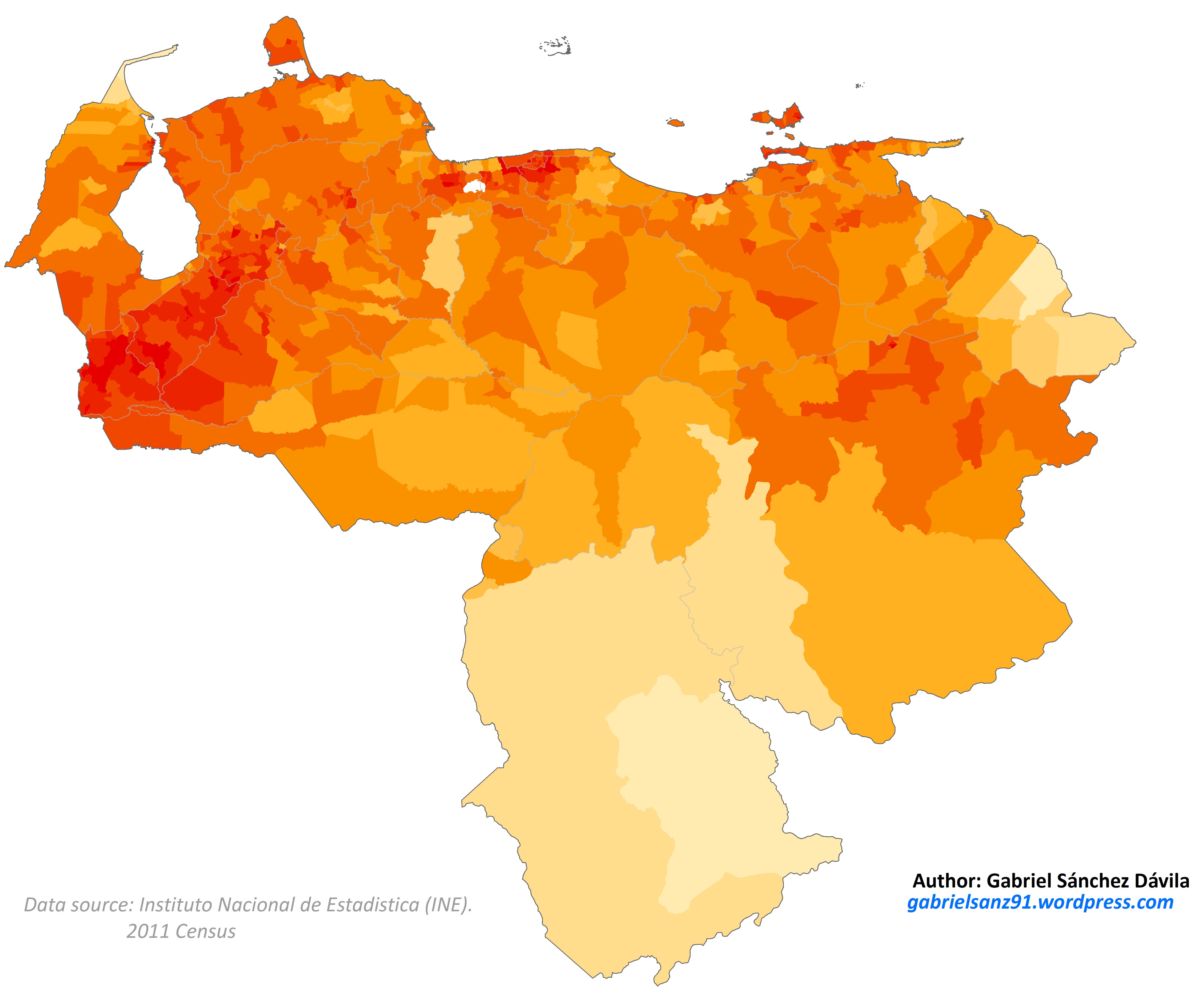 Map showing the proportion of the Venezuelan population described as "White" in the 2011 census, at electoral ward level. 60%